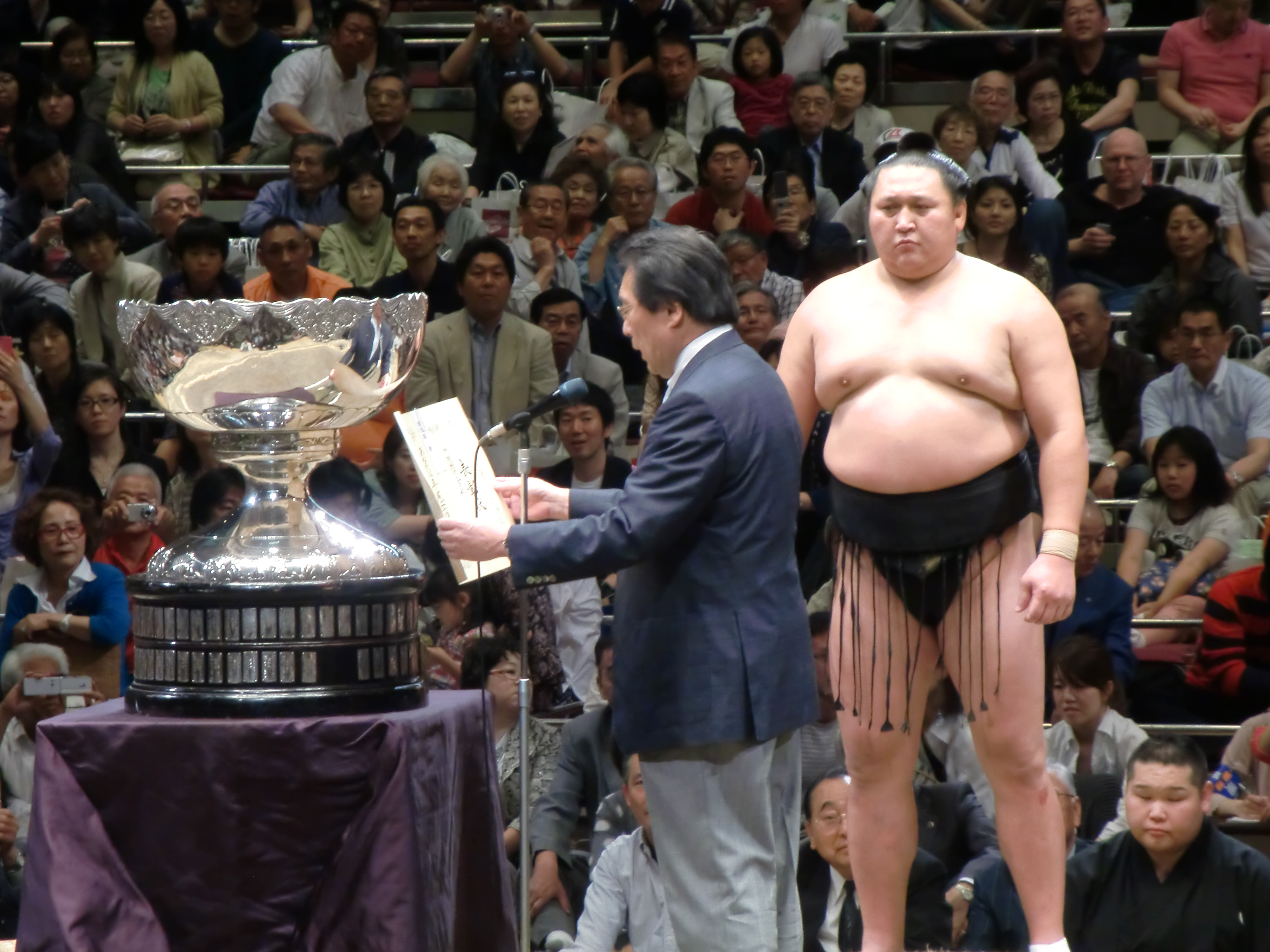 Kyokutenho receiving prime minister cup at 2012 May pro sumo tournament